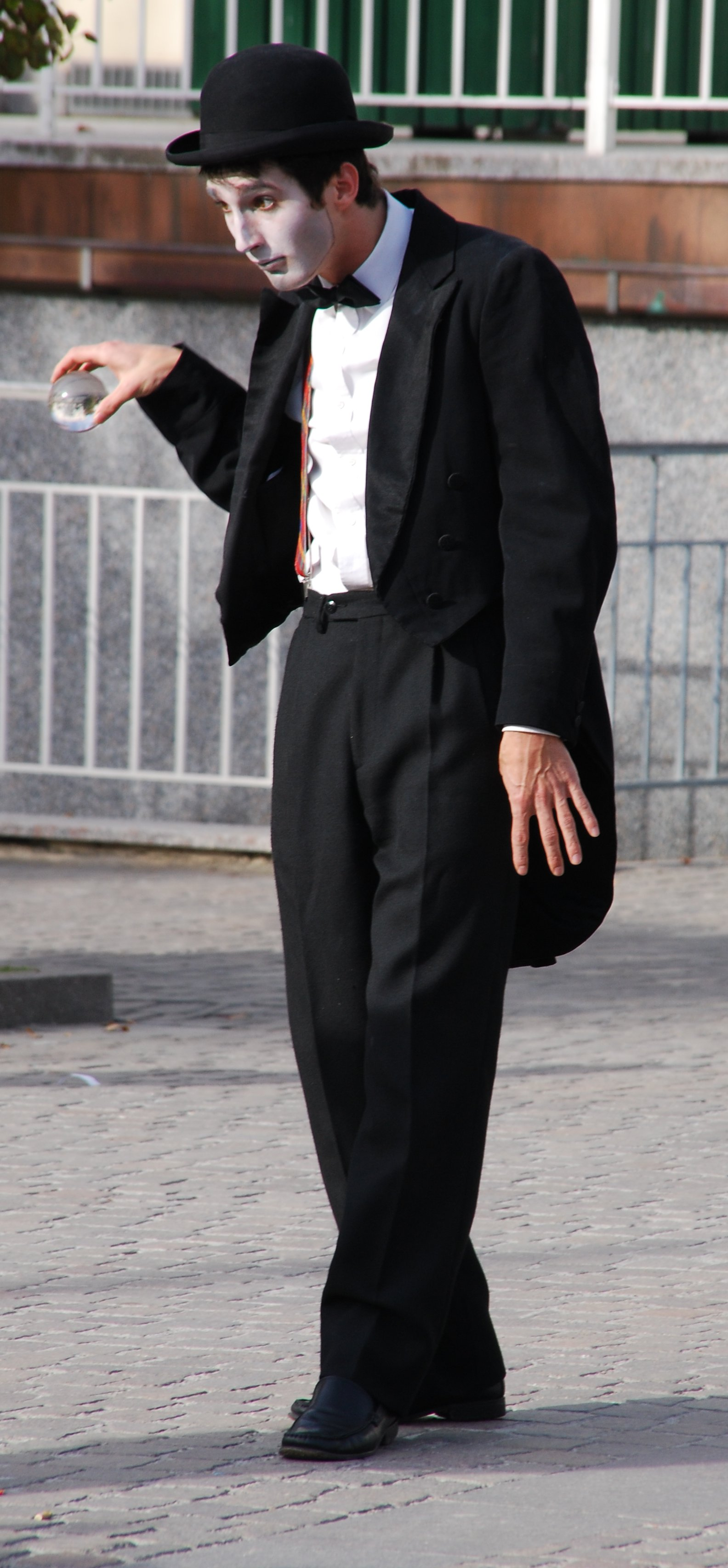 mime